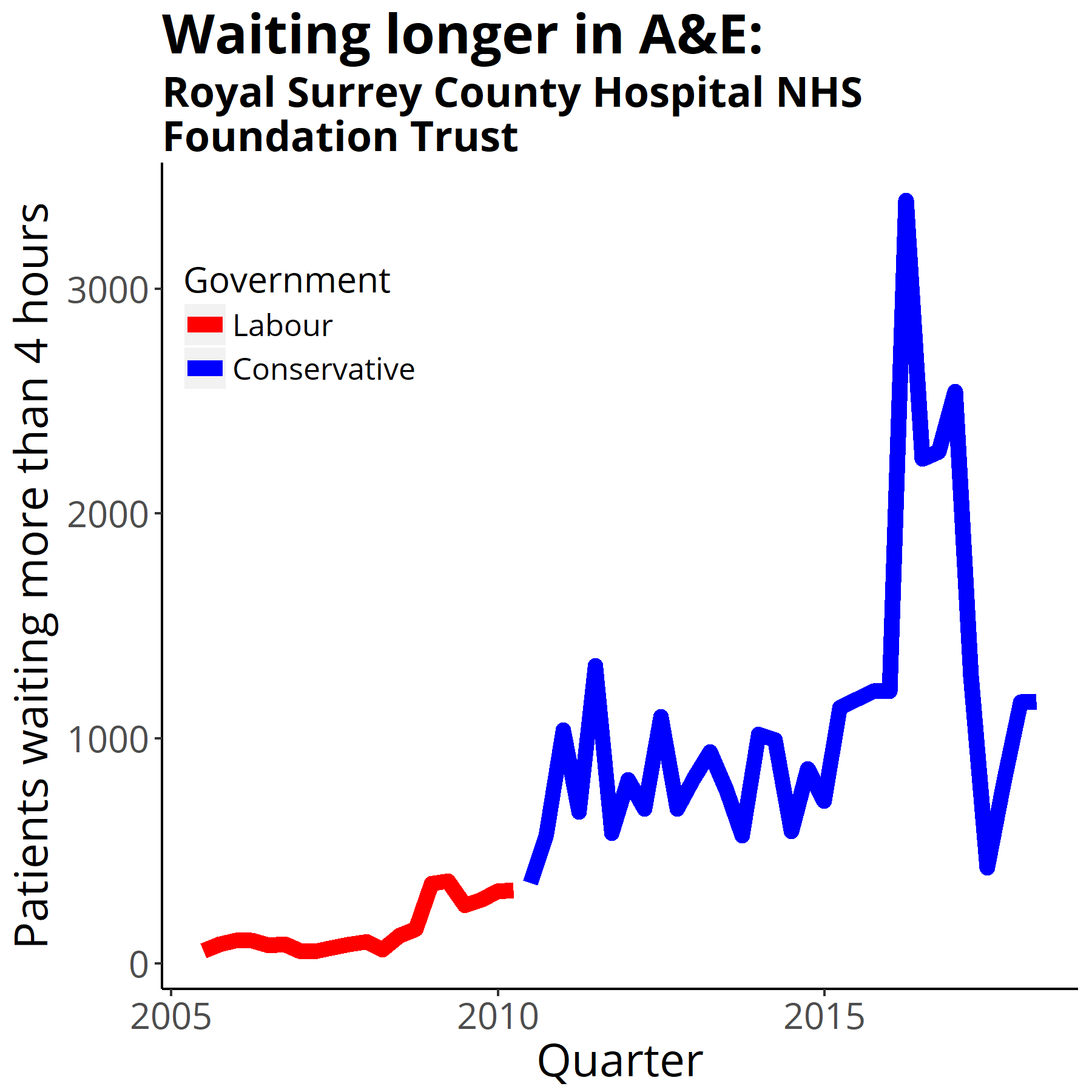 Four-hour target in the emergency department quarterly figures from NHS England Data from